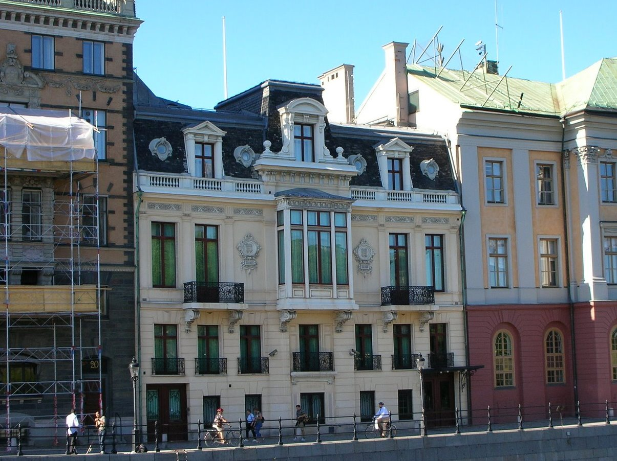 Sager Palace, Stockholm